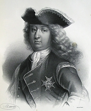 Louis Joseph de Bourbon, Duke of Vendôme (1654 – 1712)